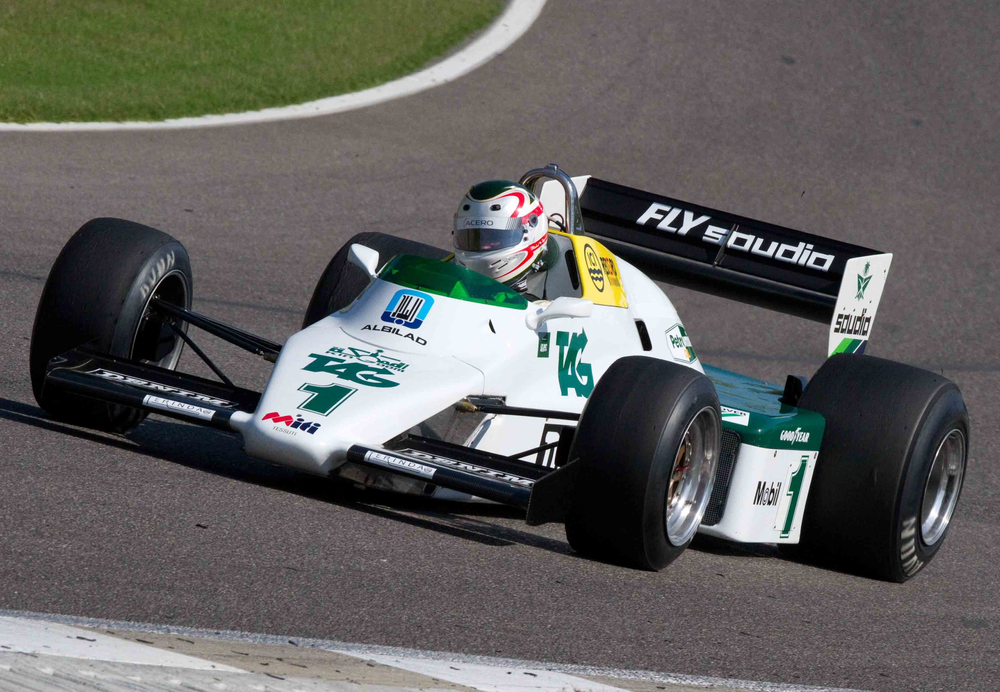 1983 Williams FW08C at Barber Motorsports Park, 2010